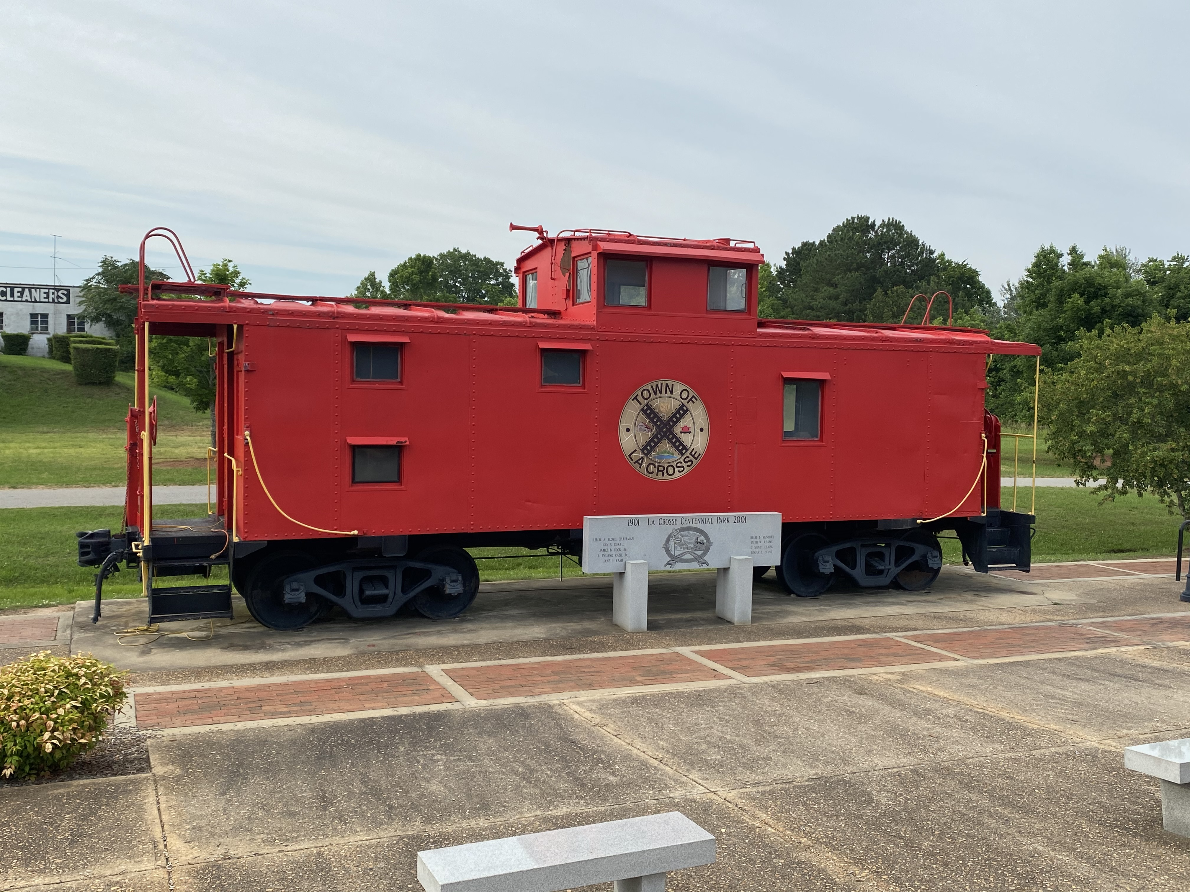 Antique Caboose at La Crosse, Virginia in Centennial Park to commemorate the 2001 Centennial of the town.